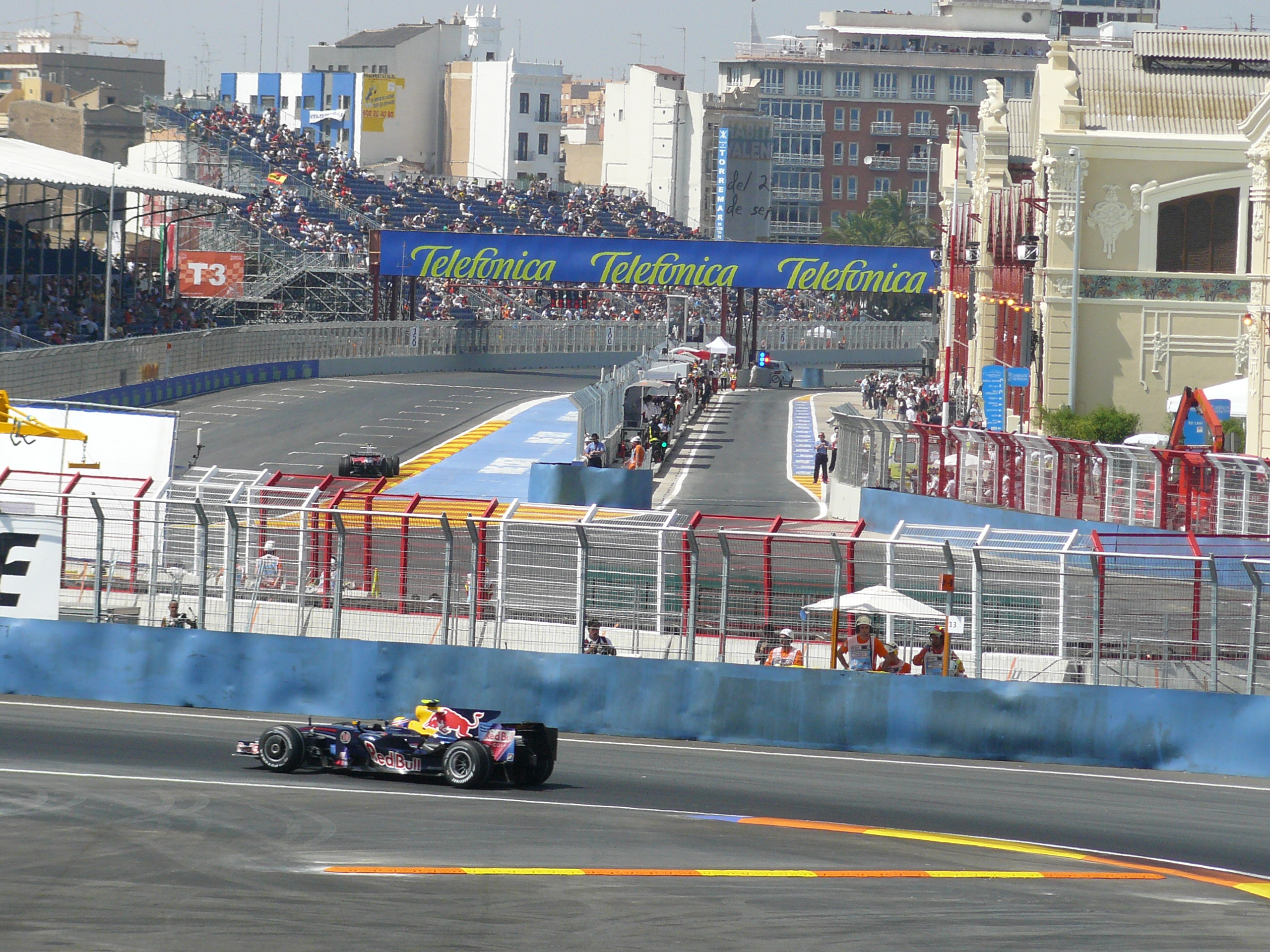 Mark Webber, Red Bull - Formula 1 Grand Prix of Europe, Valencia Street Circuit, Spain, August 2008